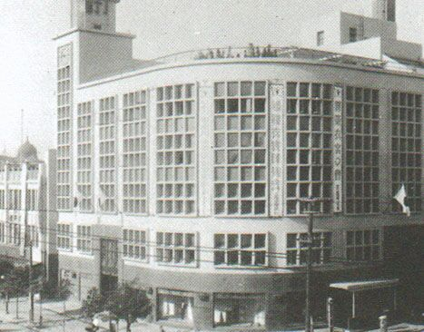 Chojiya Department Store Keijō Store